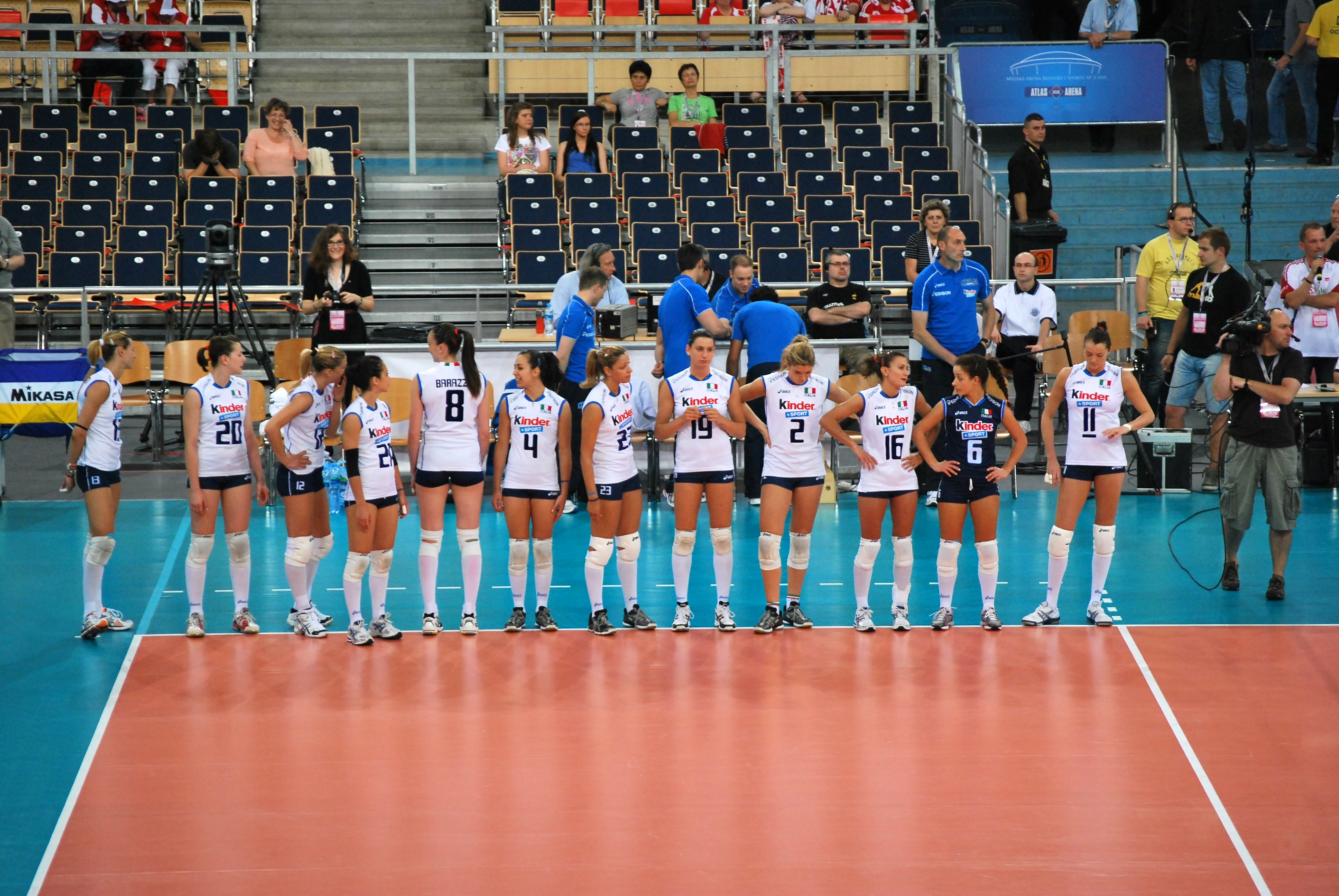 Italian Team, Grand Prix Łódź, Poland